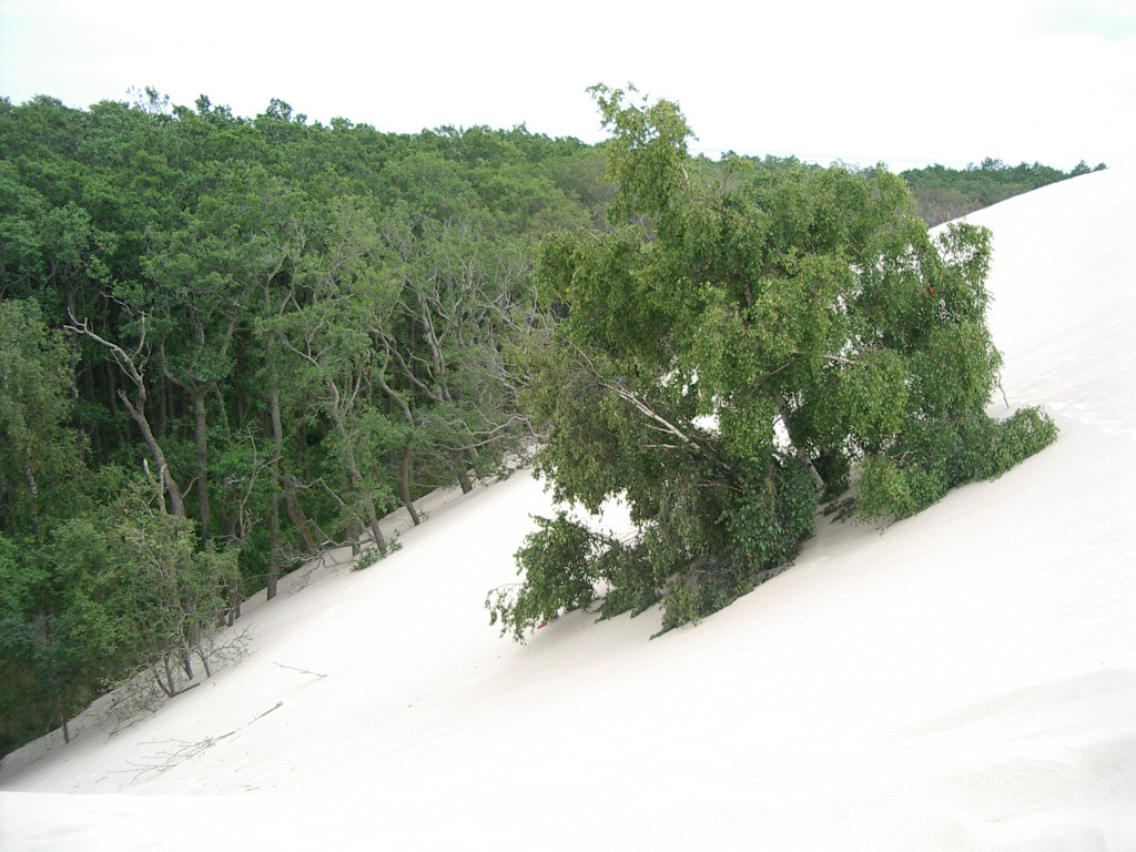 Description: Trees burried by dunes in Słowinski national park, Poland Source: Ekočlen Date: 7th July, 2005 Author: Ekočlen (uploaded by Tcie) Licence: CreativeCommons Attribution-ShareAlike